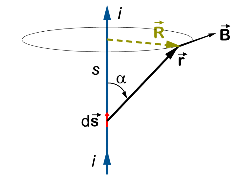 Illustration to Biot-Savart law